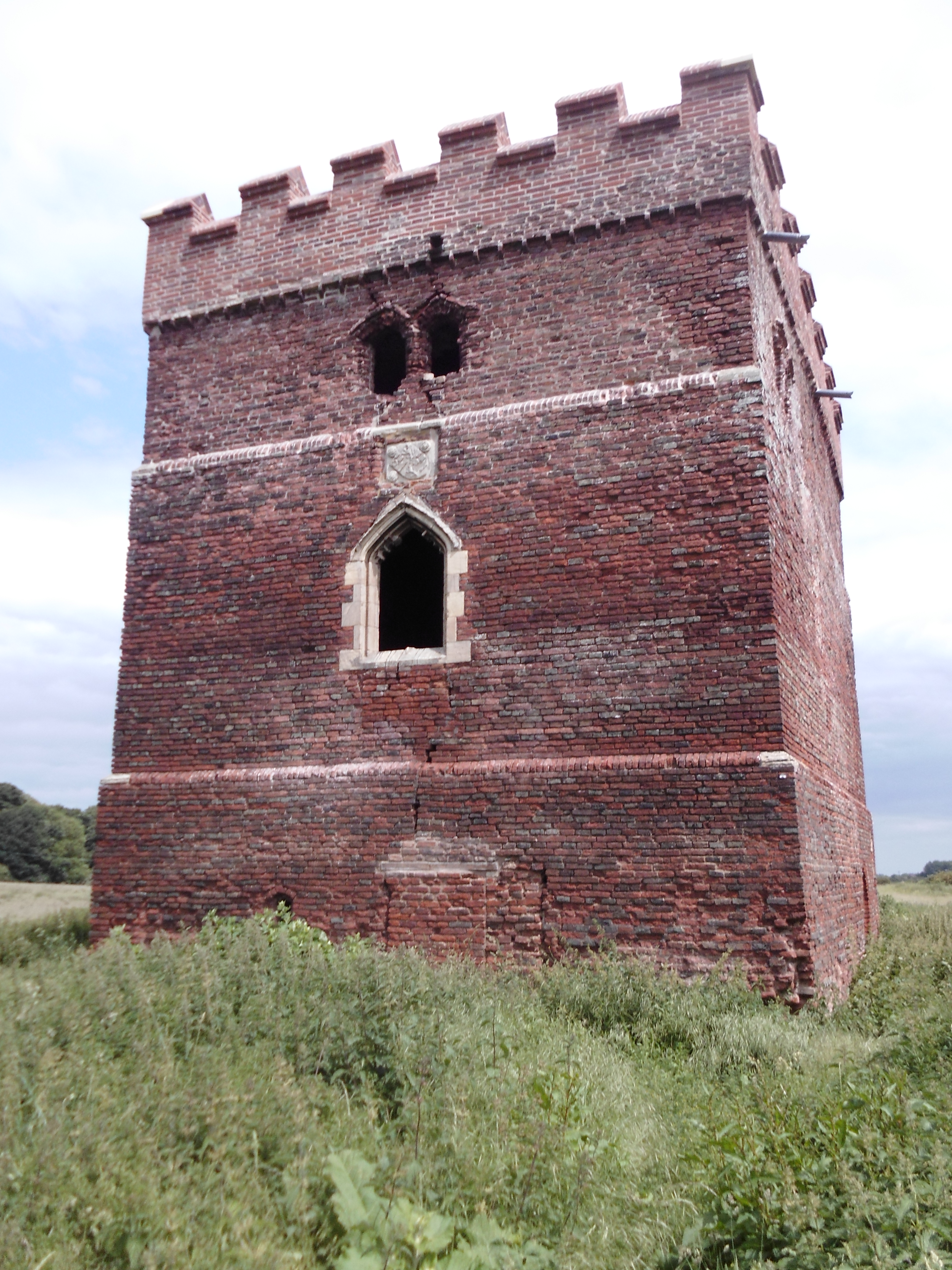 Shot of the front of Paull Holme Tower, showing restored rooftop castellations.